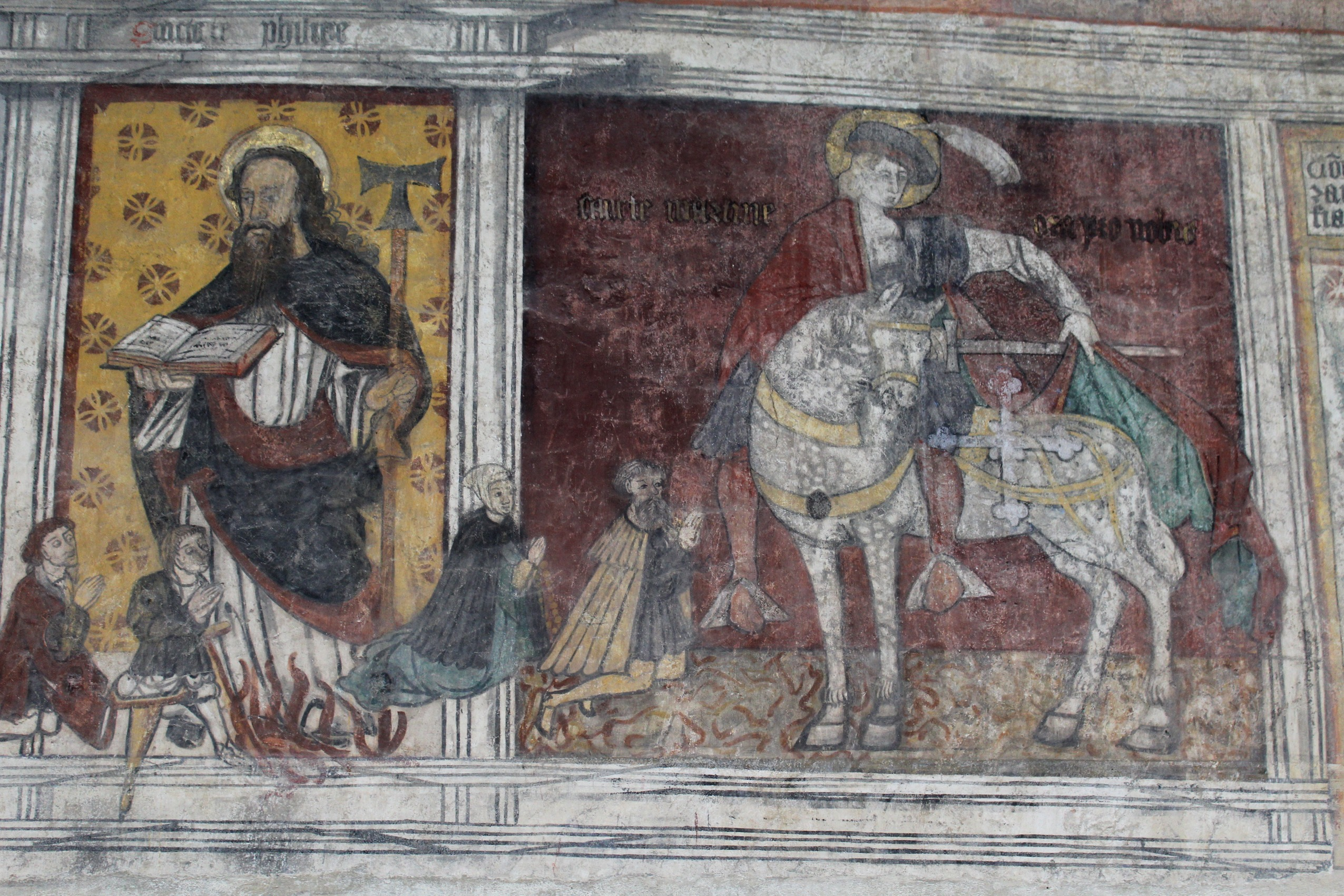 Sillegny, Saint Martin church, fresco